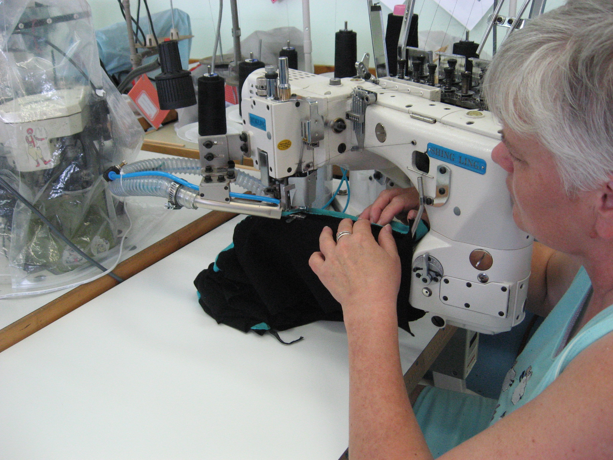 Sewing machine operator